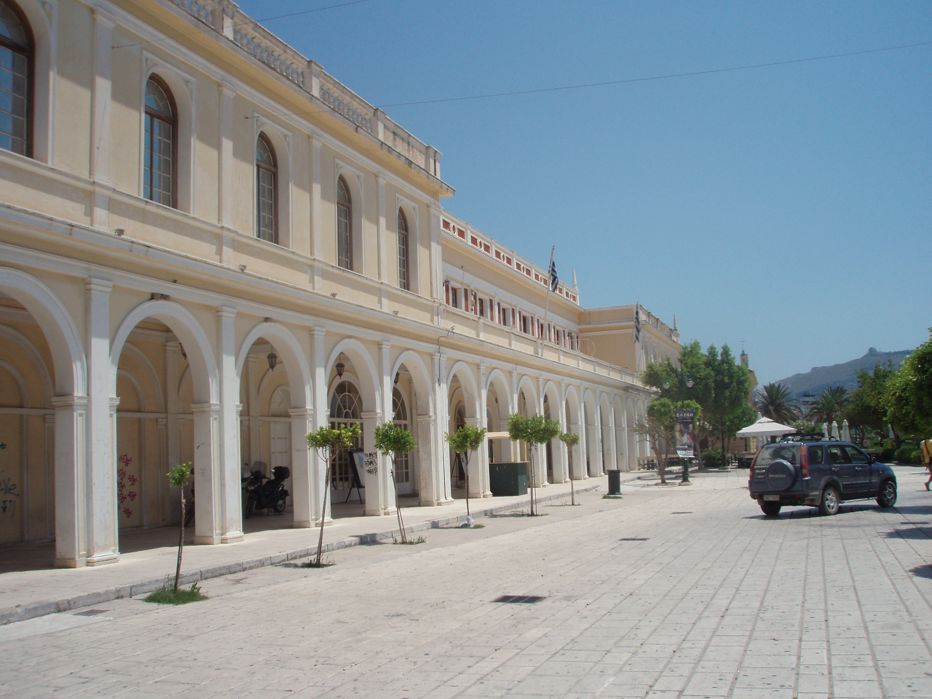 Municipal theater of Zakynthos (city) at Dionysios Solomos Square, Zakynthos (city), Greece. Architect of building was Ernst Ziller. The building war reconstructed after its destruction in 1953's earthquake.